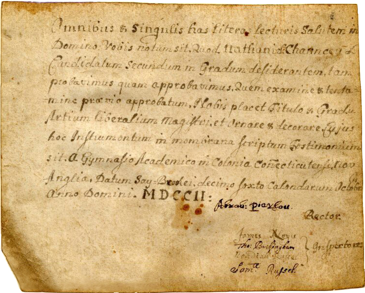 Diploma granted by Yale College to Nathaniel Chauncey, who received an Hon. Master of Arts degree in 1702. This was the first diploma awarded by Yale College, later known as Yale University. Image courtesy of the Yale University Manuscripts & Archives Digital Images Database.